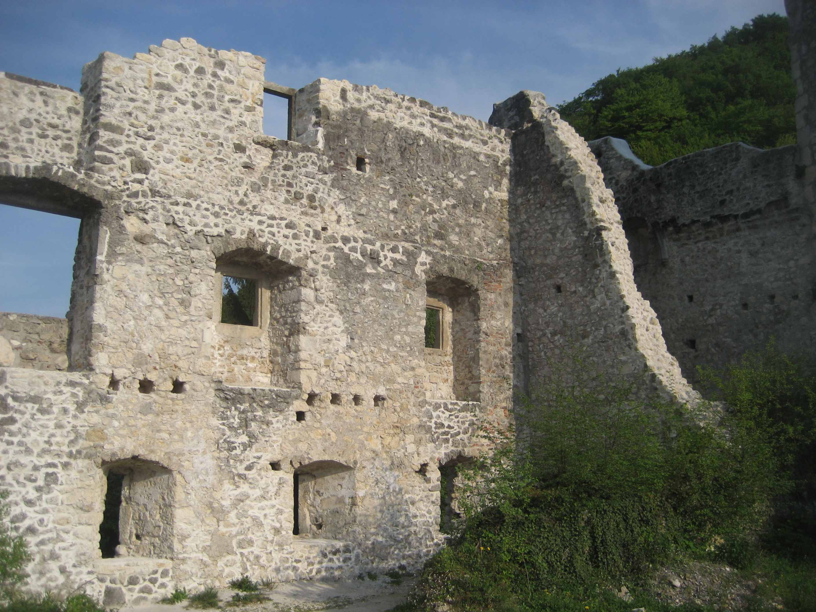 Ruin Samobor Castle